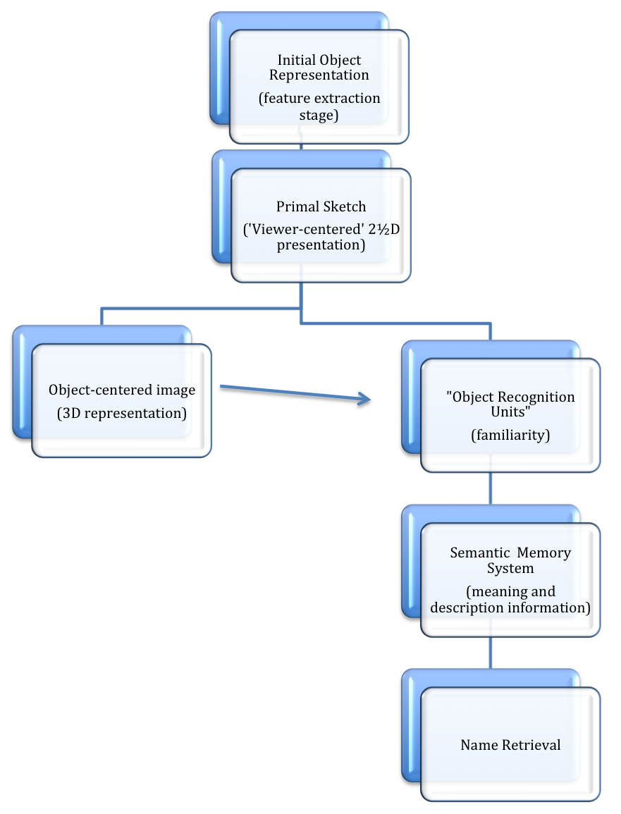 Model of information processing stages in object recognition